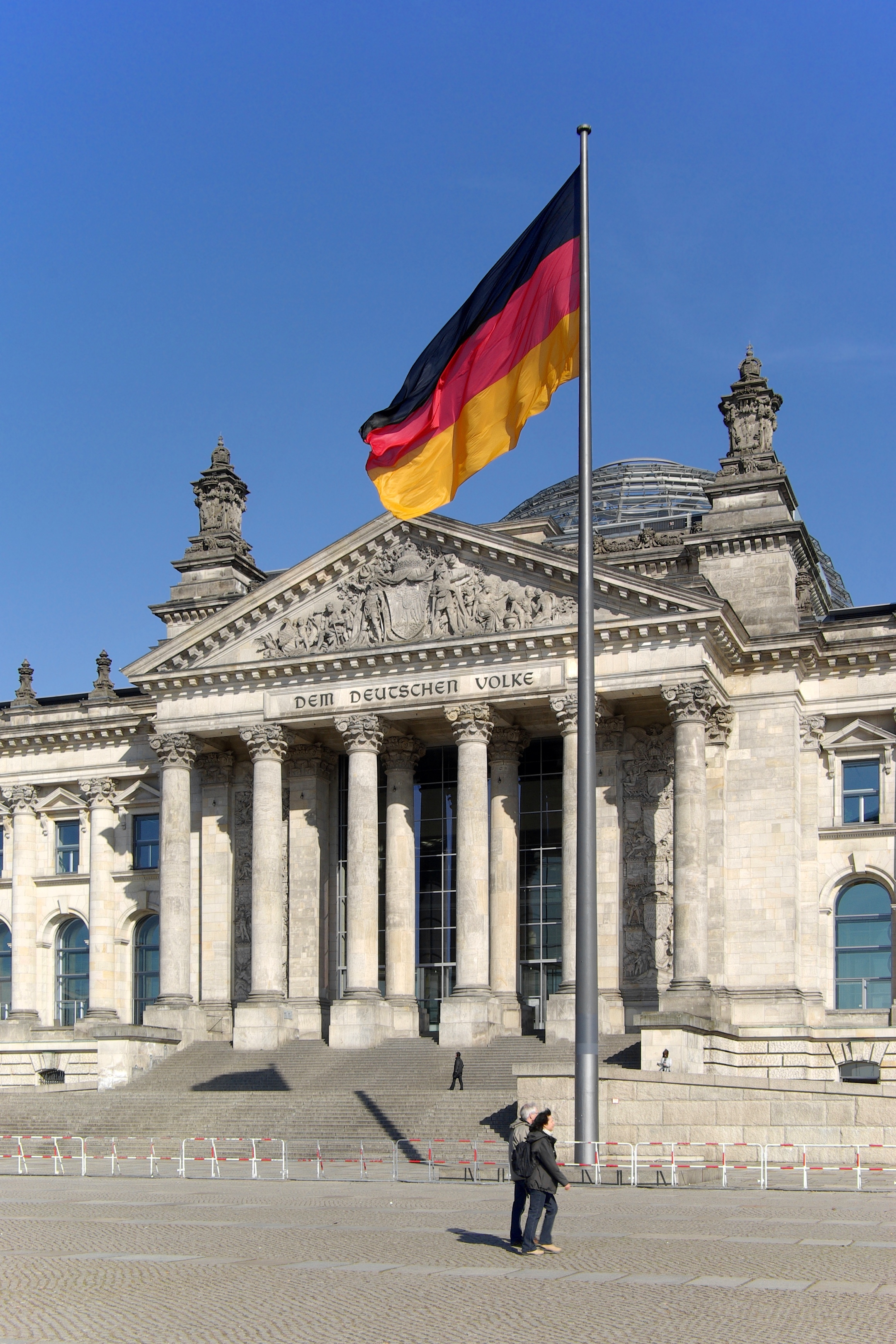 Berlin, Reichstag (building)